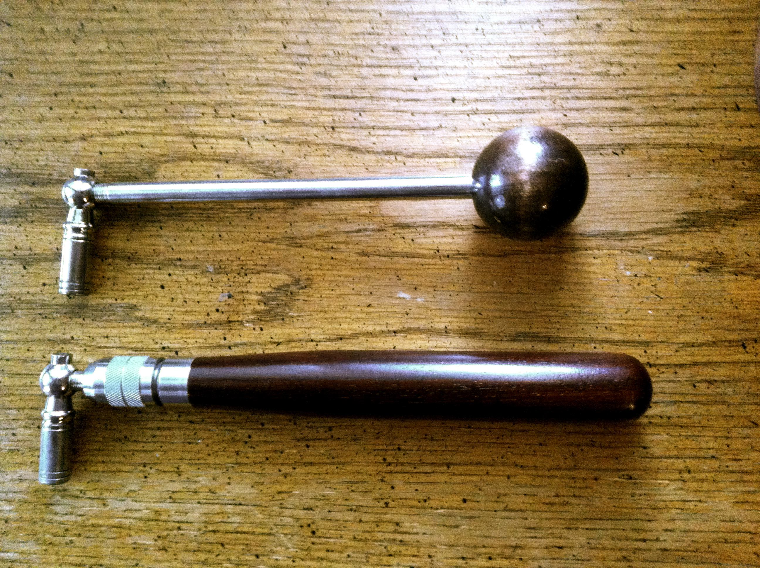 Two popular styles of traditional piano tuning levers